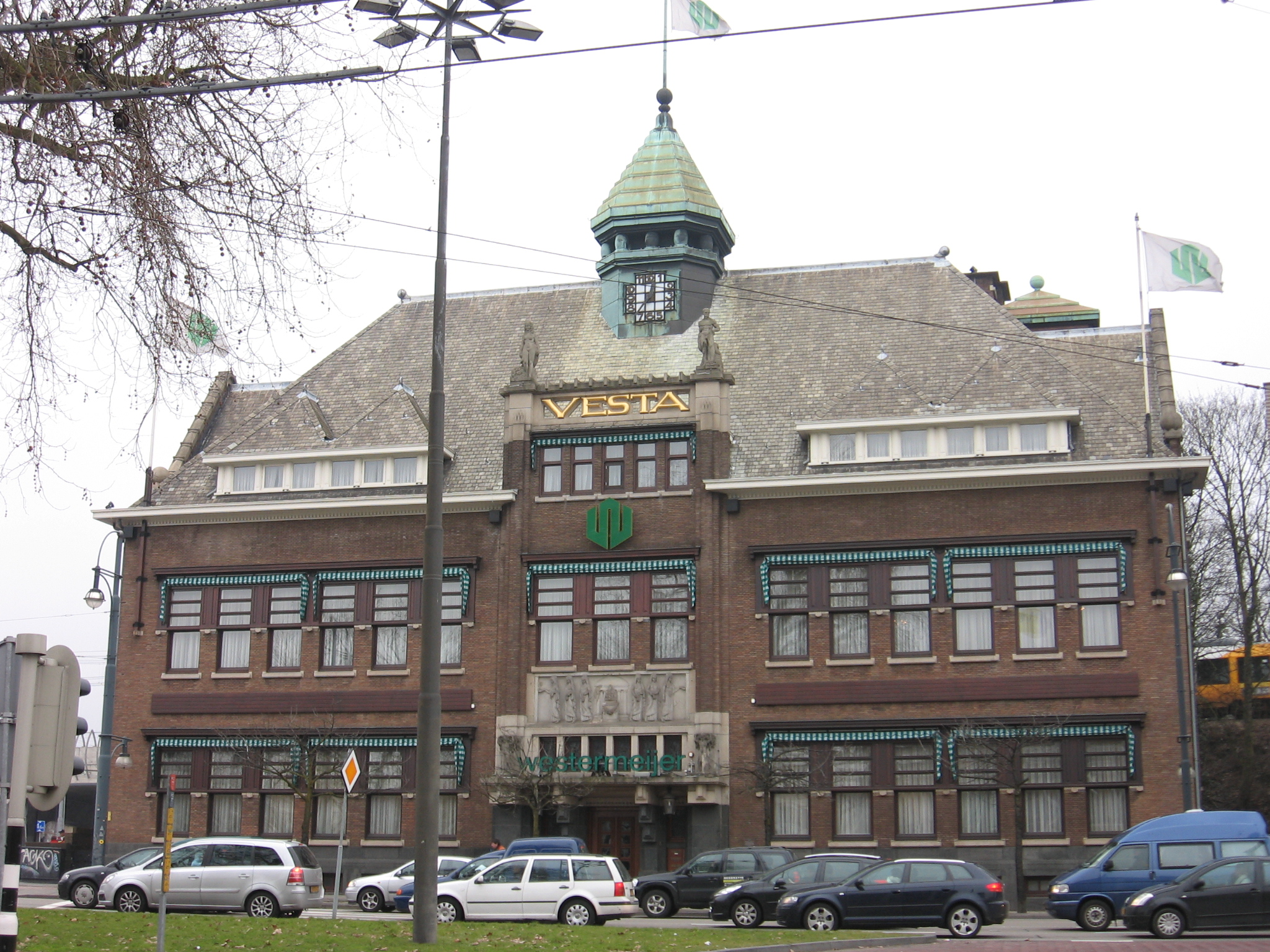 Arnhem - Vestagebouw